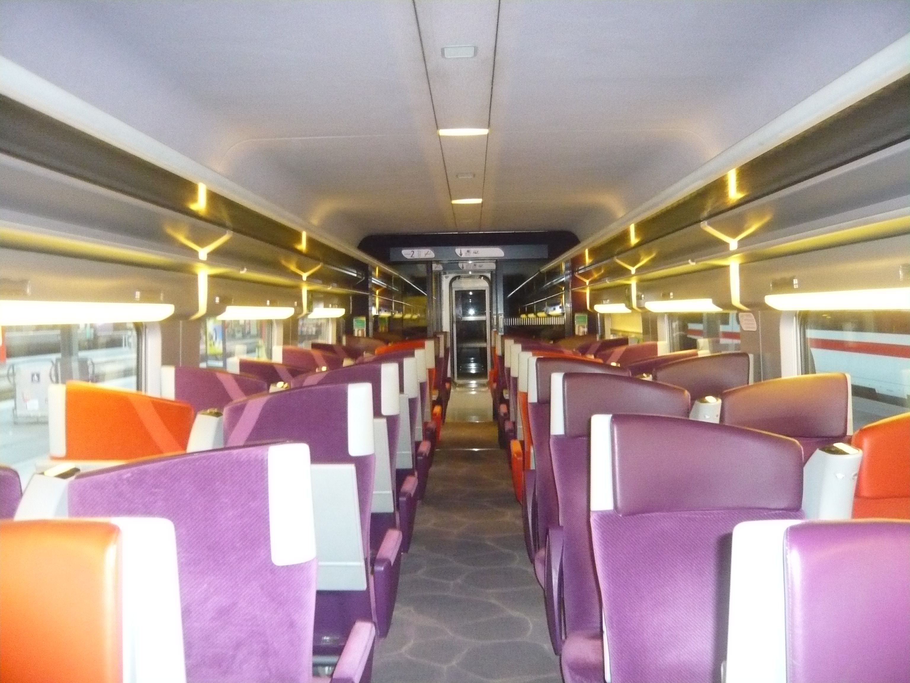 The 2.class of an TGV POS